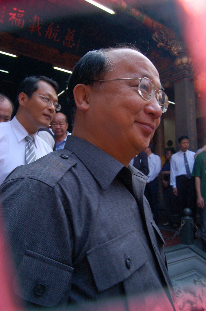 Taichung mayor Jason Hu, at Lecheng Temple Matsu's inspection tour.